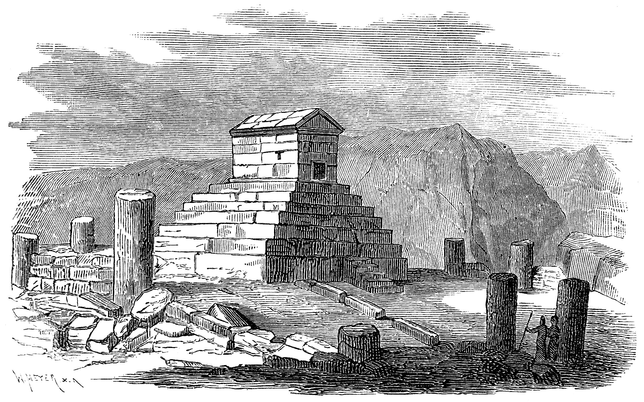 Illustration from "Illustrerad verldshistoria utgifven av E. Wallis. volume I": The grave of Cyrus.